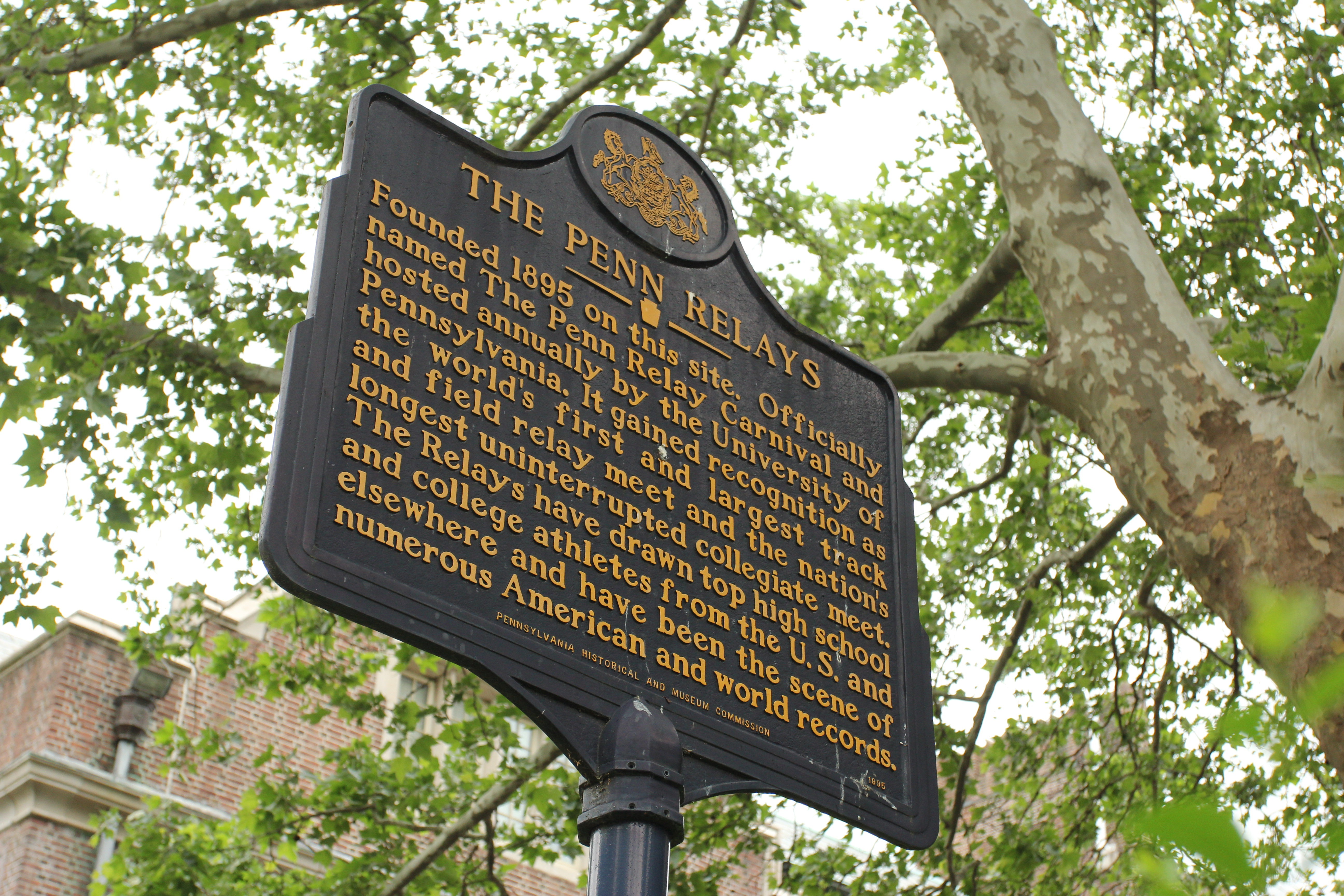 Penn Relays historical marker